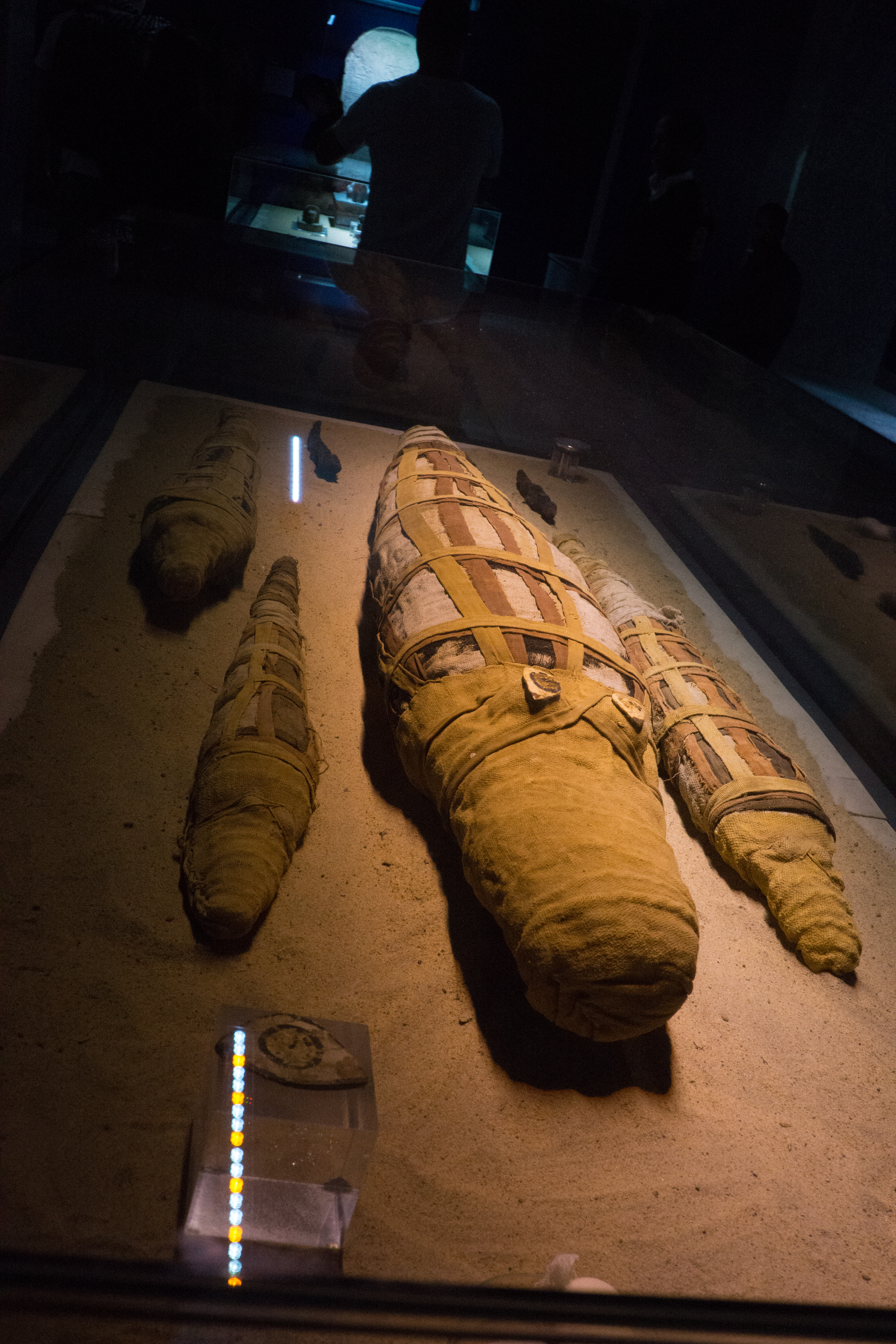 Mummified crocodiles offered to Sobek by worshippers